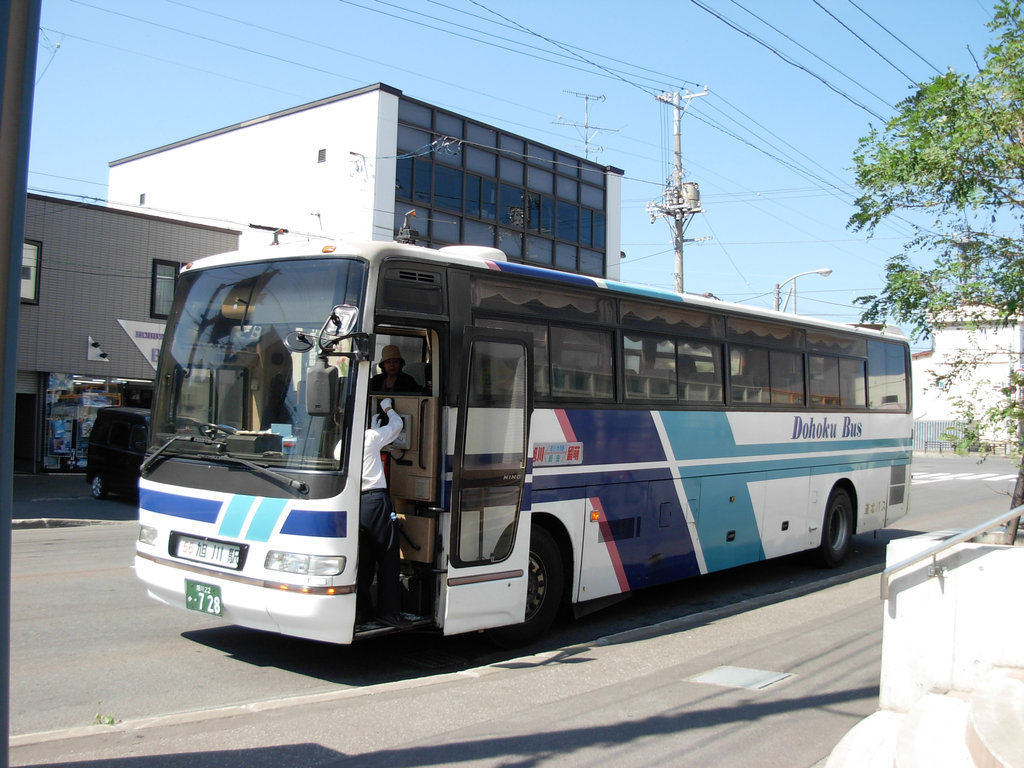 A bus of Dohoku bus, at Rumoi